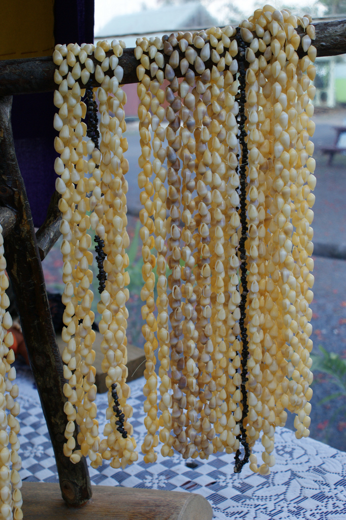 Shell necklaces on display in Rarotonga, Cook Islands.